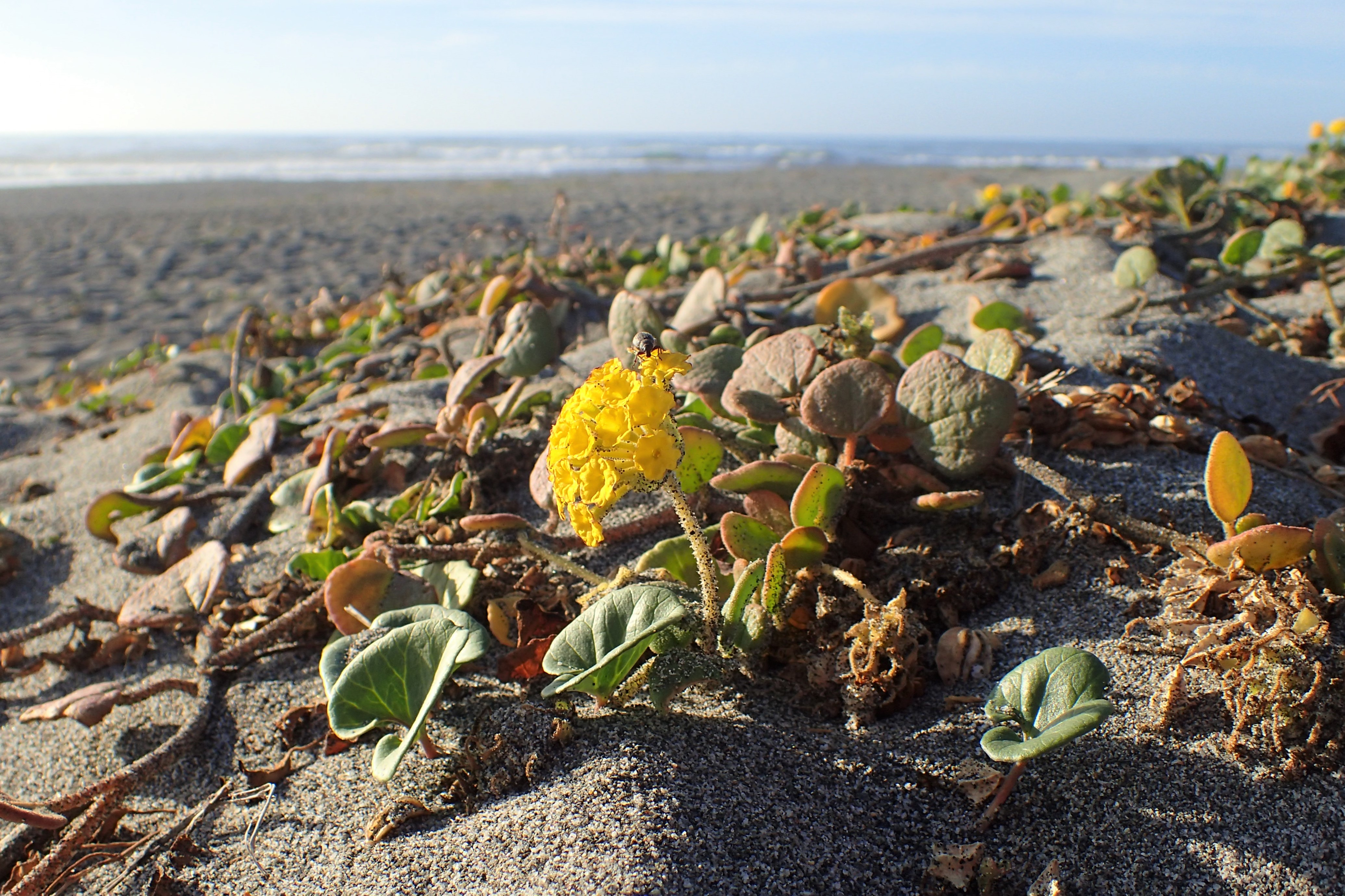 Abronia latifolia on beach at Stone Lagoon in Humboldt Lagoons State Park, along the coast of Humboldt County, California